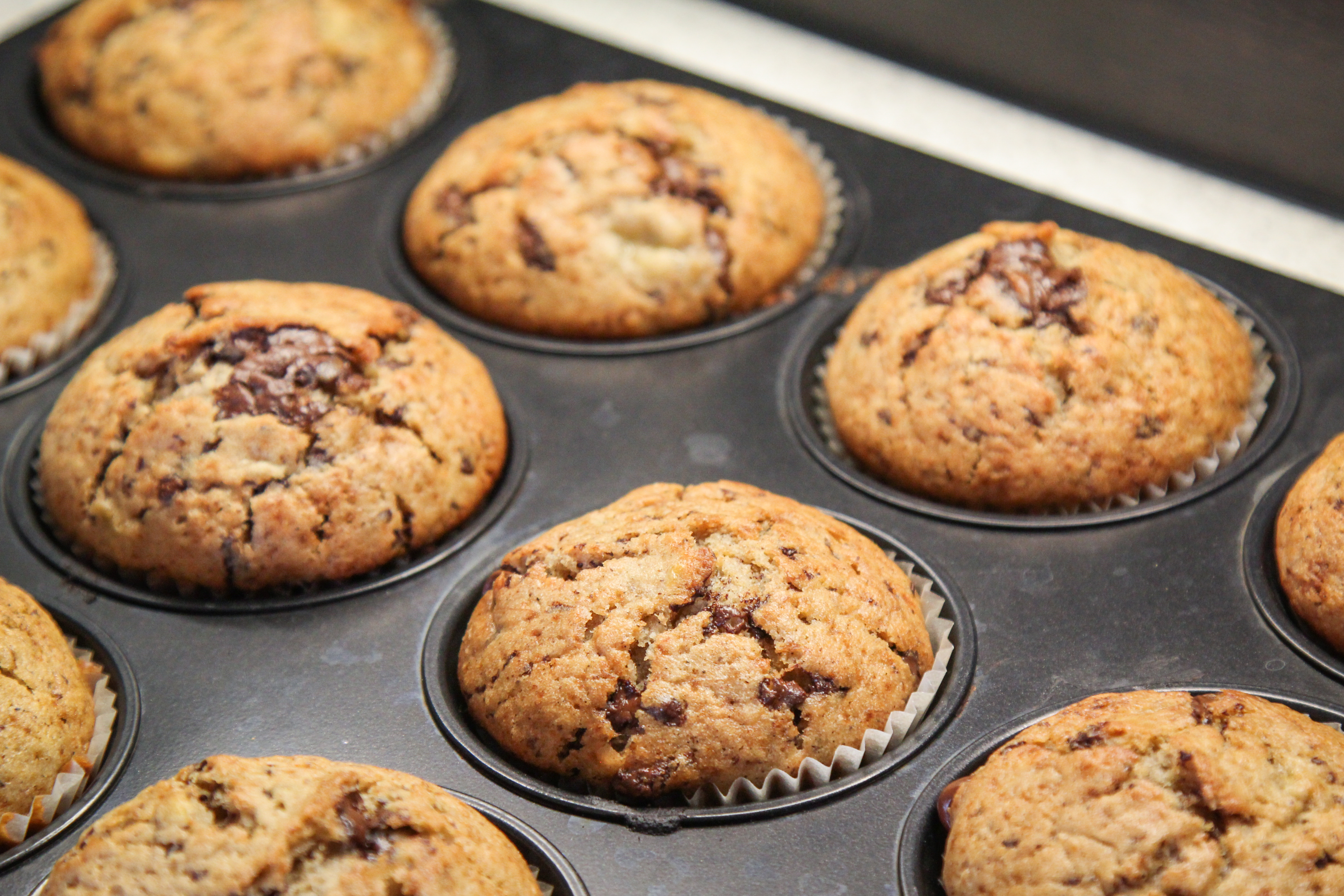 Juni 2016 Canon EOS 60D EF 24-105mm f/4L IS USM Creative Commons Licence BY 2.0 Quellenangabe / Credit: Maja Dumat - CC BY 2.0